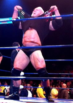 Wrestler Jon Andersen. Cropped from original image.